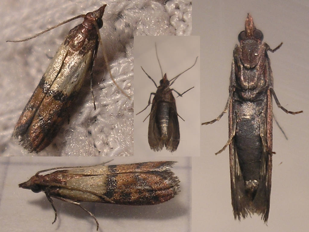 Indian Meal Moth (Plodia interpunctella).Location: Ballans, 17160 (Charente-Maritime) FranceKeywords: pest, food, chocolate